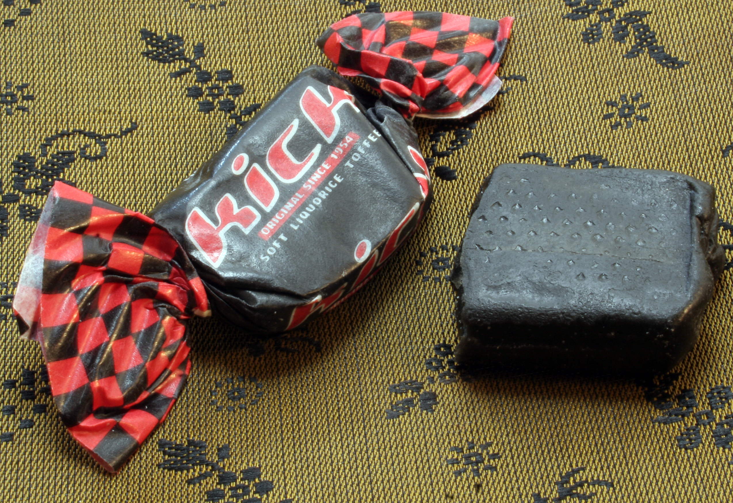 "Kick" candy from Malaco candy brand